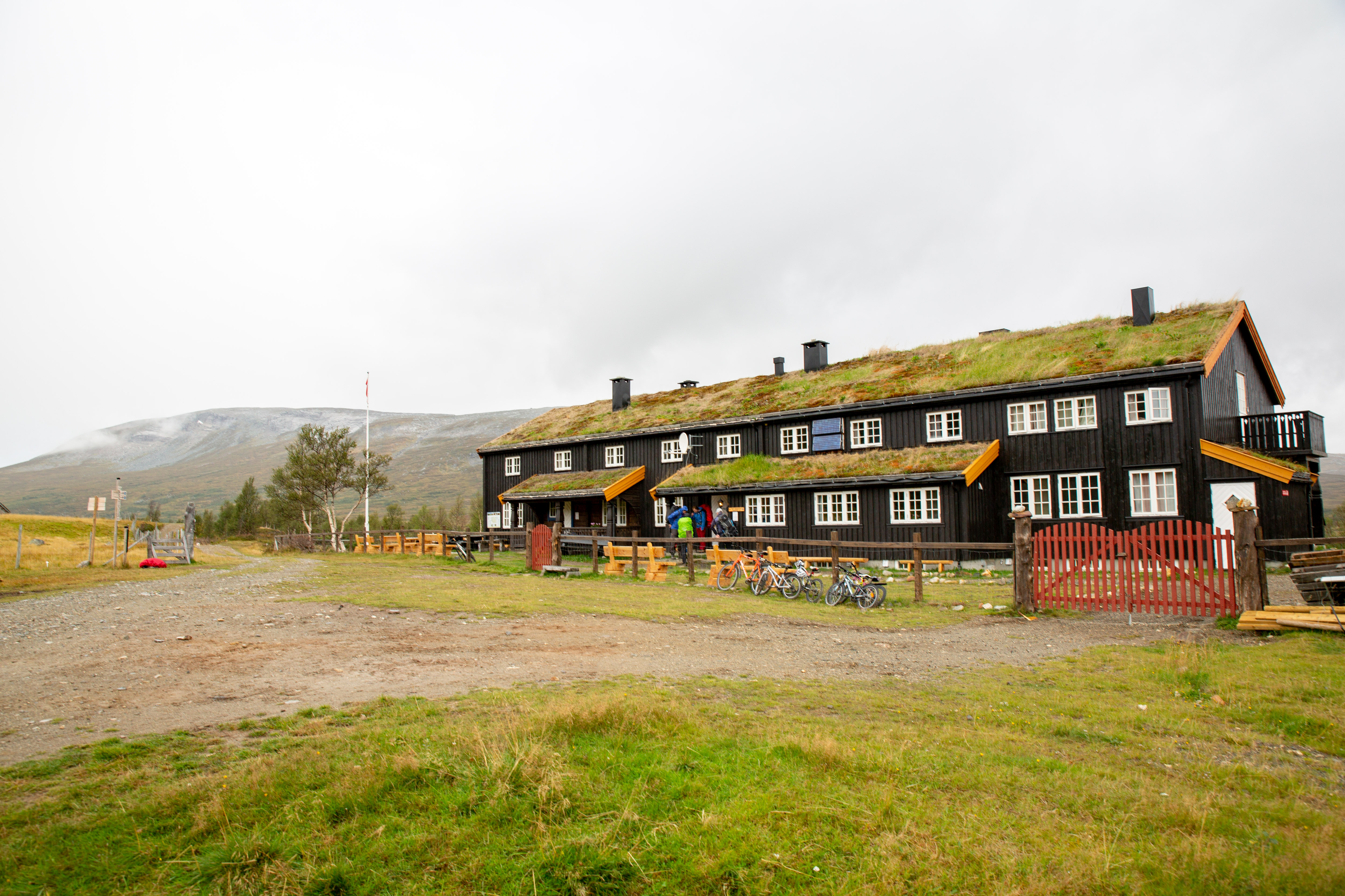 Jøldalshytta belonging to Trondheim Turistforening in Trollheimen in summer